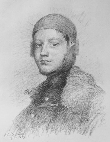 Drawing of French aviator Georges Guynemer (1894-1917) by Louise-Catherine Breslau (1856-1927).